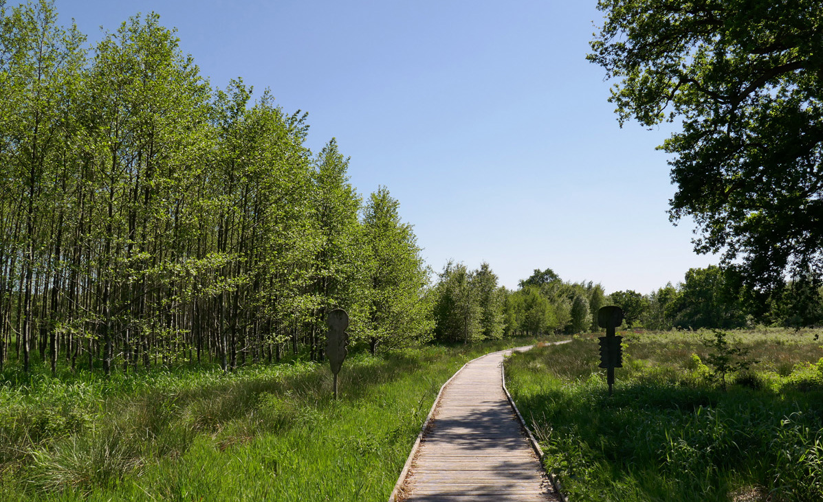 Boardwalk in the Bollenhagener Moorwald in Lower Saxony